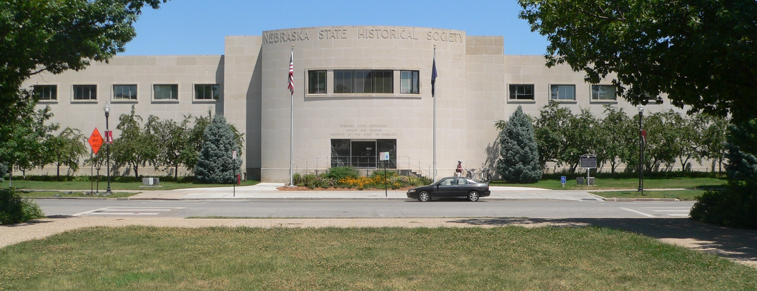 Nebraska State Historical Society building, located at 1500 R Street, on the campus of the University of Nebraska in Lincoln, Nebraska; seen from the south, looking northward along Centennial Mall.